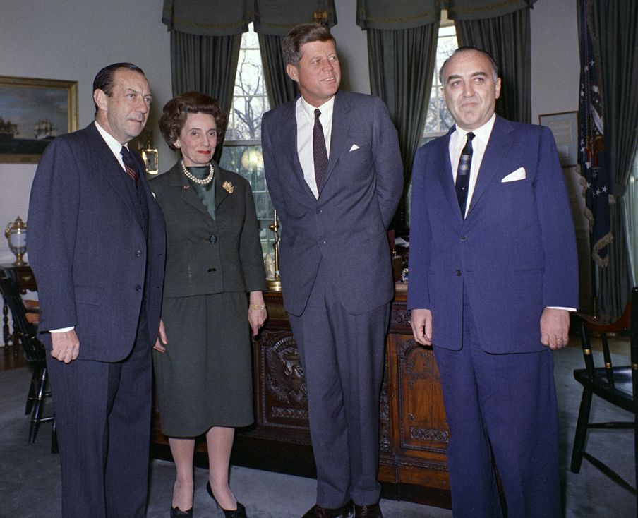 President John F. Kennedy meets with representatives regarding a Democratic fund-raising dinner in honor of his 45th birthday in New York City. (L-R) Robert F. Wagner, Jr., Mayor of New York City; Anna M. Rosenberg, former Assistant Secretary of Defense for Manpower and co-chairman of "New York's Birthday Salute to the President;" President Kennedy; and Arthur B. Krim, President of United Artists Corporation and co-chairman of "New York's Birthday Salute to the President." Oval Office, White House, Washington, D.C.